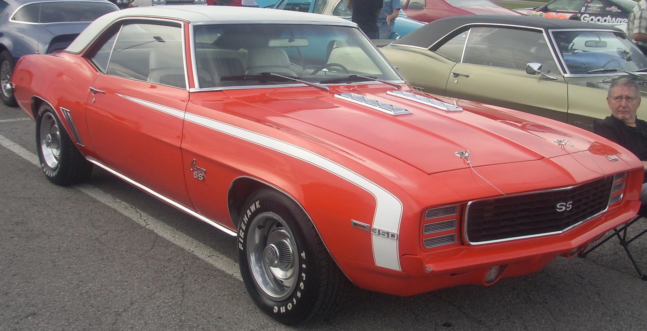 1969 Chevrolet Camaro SS photographed in Laval, Quebec, Canada at Les chauds vendredis 2010.